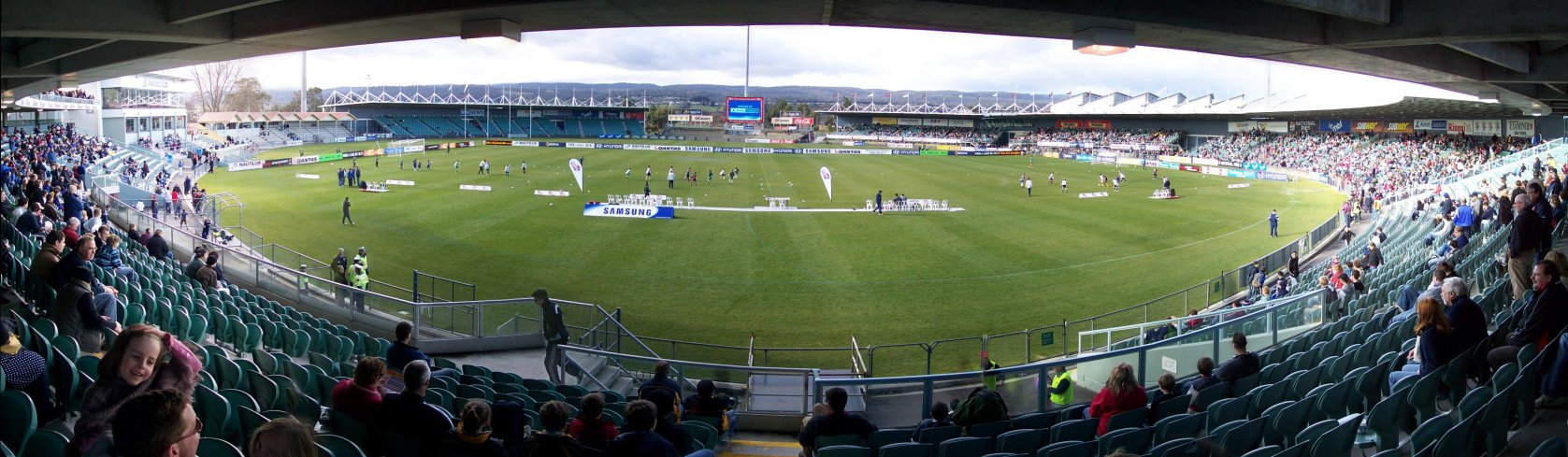 Panoramic image of inside of Aurora Stadium, Launceston, During half-time break of A-League preseason game between Melbourne Victory and Adelaide United.